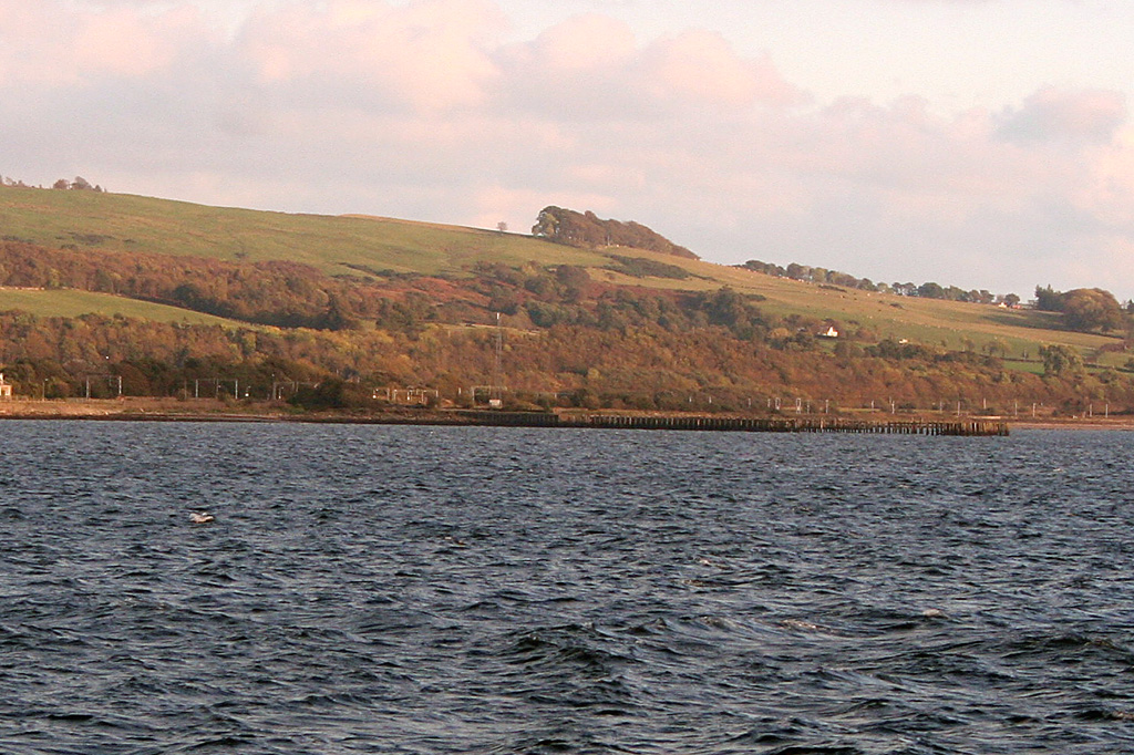 The derelict Craigendoran Pier viewed from the River Clyde